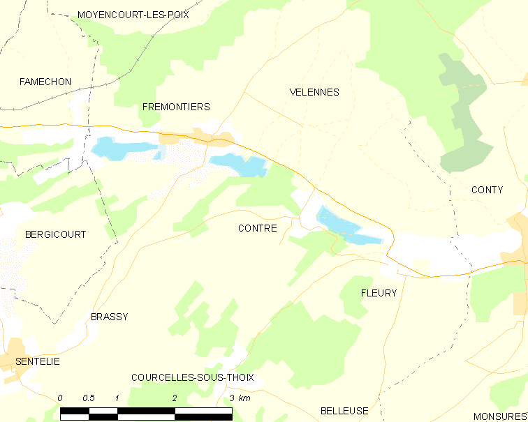 Map of French municipality Contre